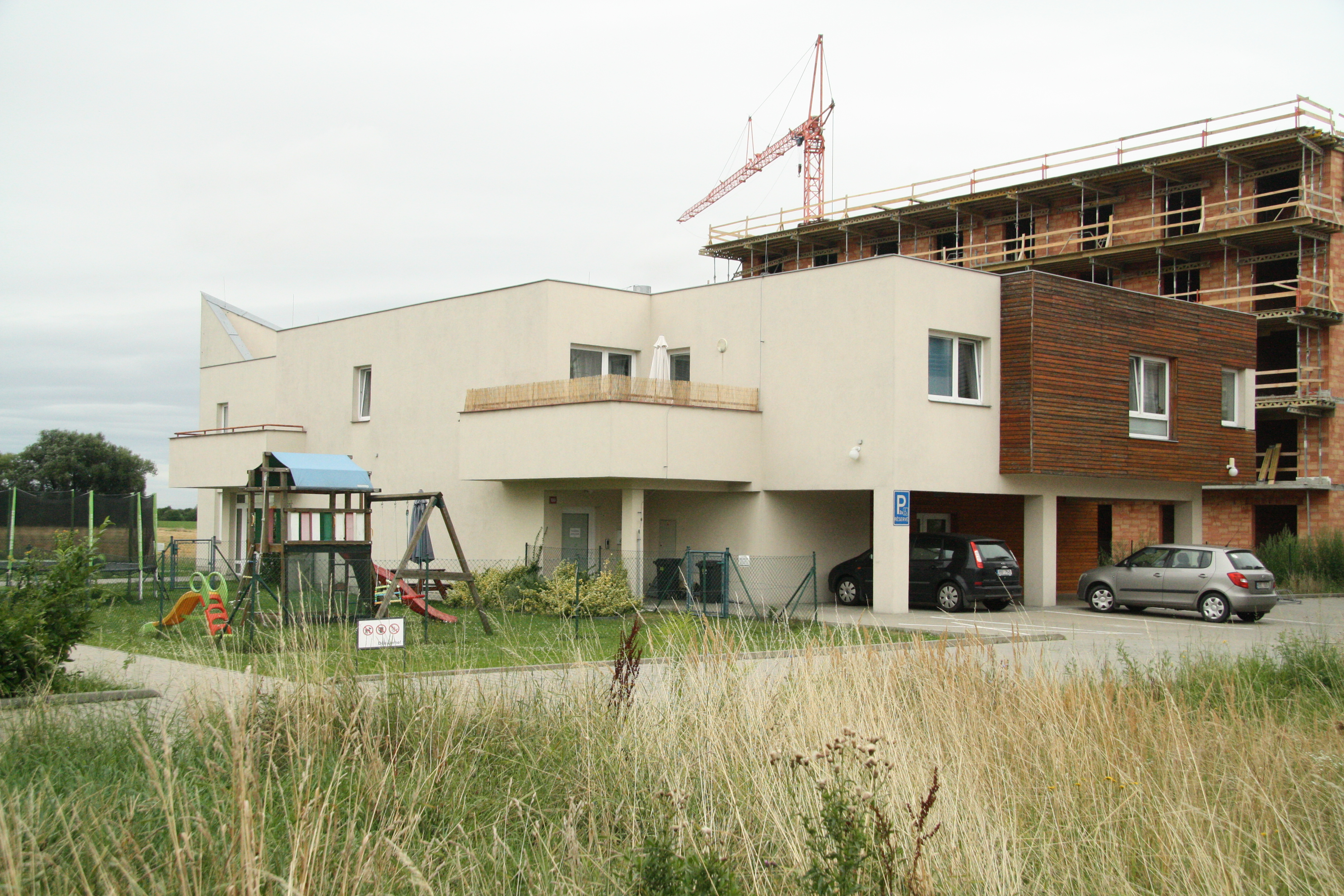 Bétel in Poděbrady, Nymburk District.